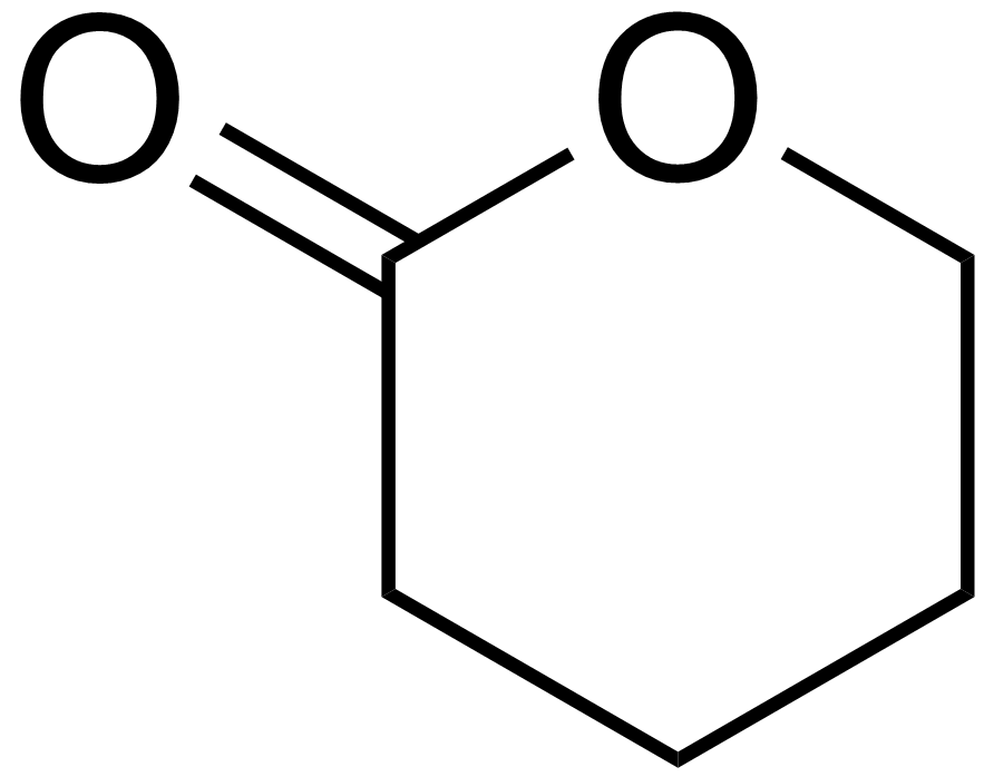 chemical structure of delta-valerolactone